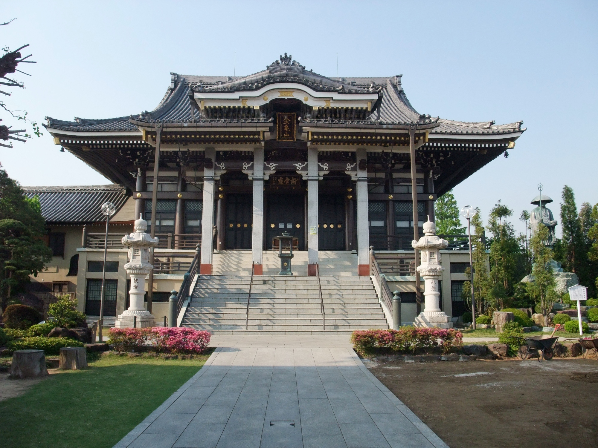 Sangaku-in temple in Warabi-shi, Saitama